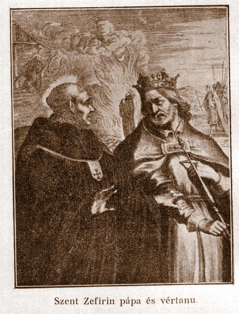 I scaned file of Pope Zeferin I from book: Crescens - Szentek élete